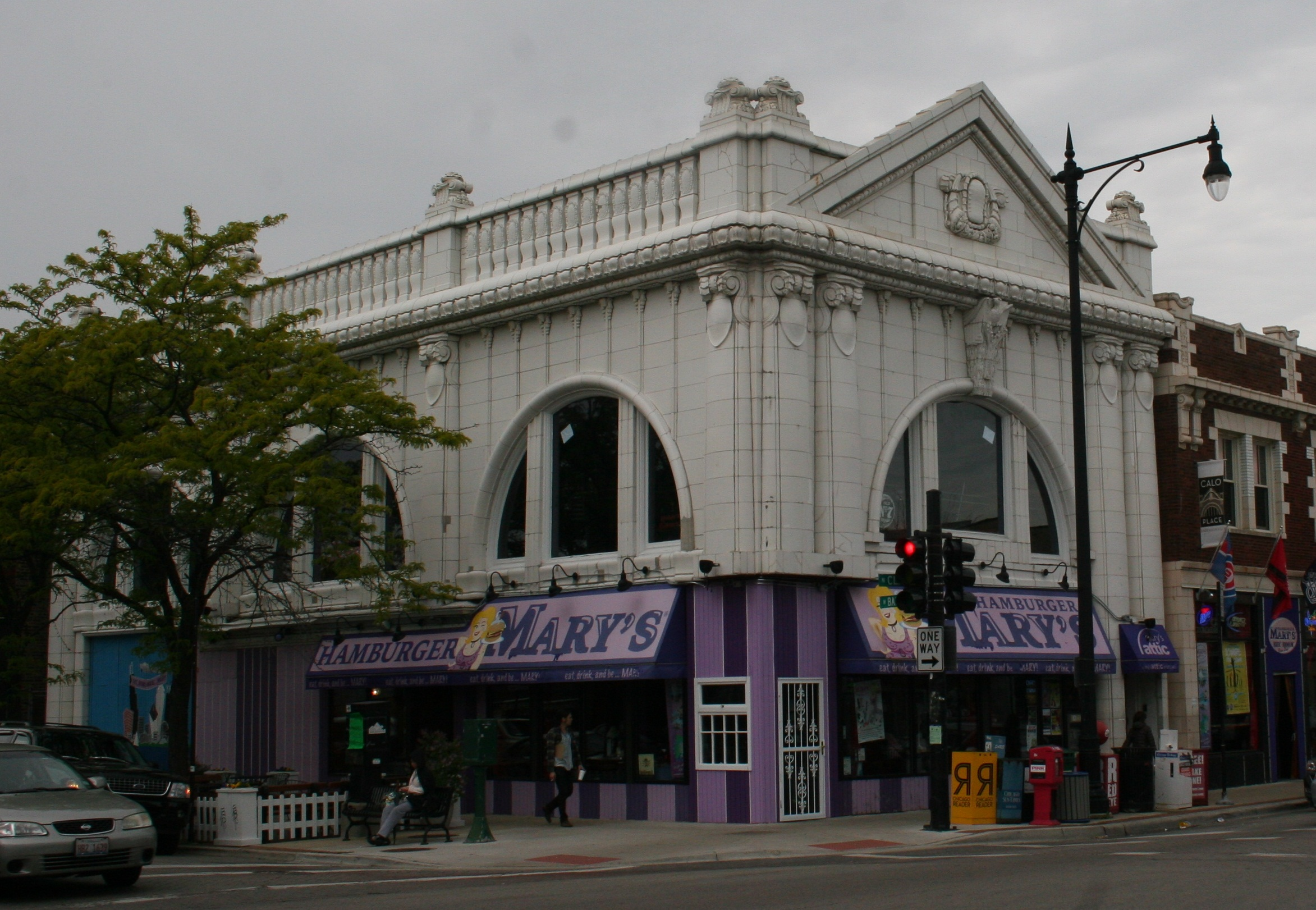 Swedish American State Bank Building in Andersonville, Chicago, IL